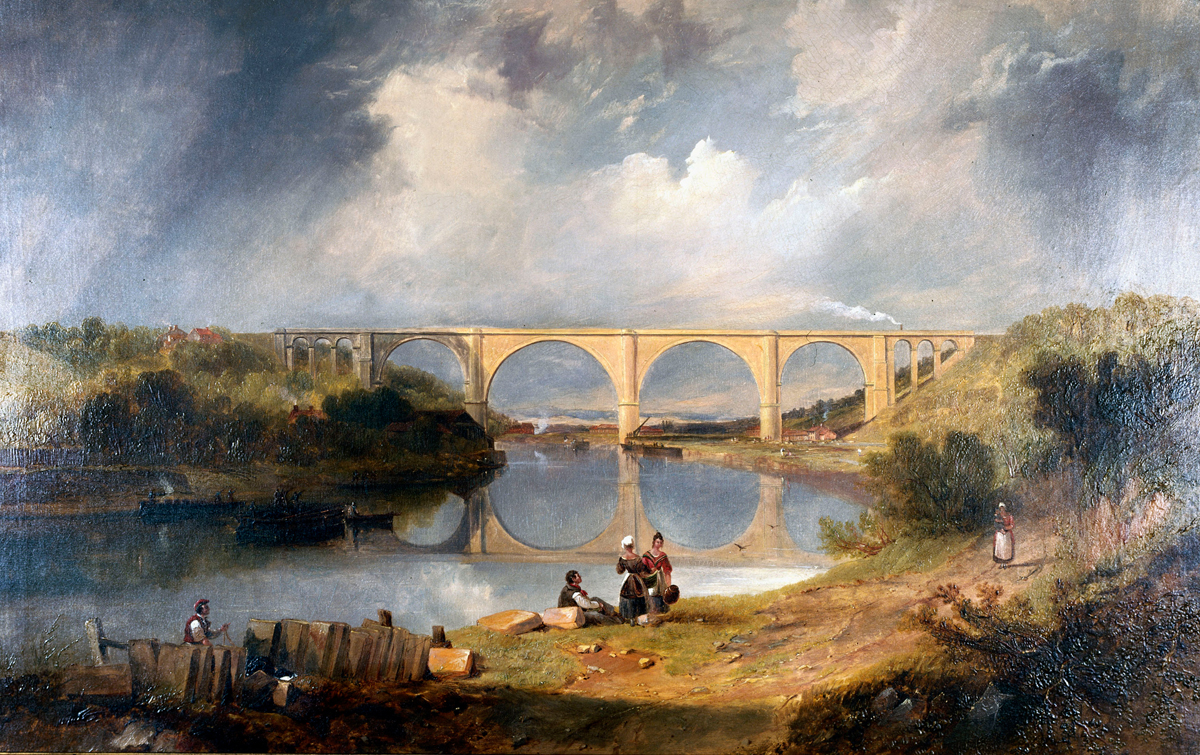 Oil Painting of the Victoria Bridge over the River Wear, painted by John Wilson Carmichael